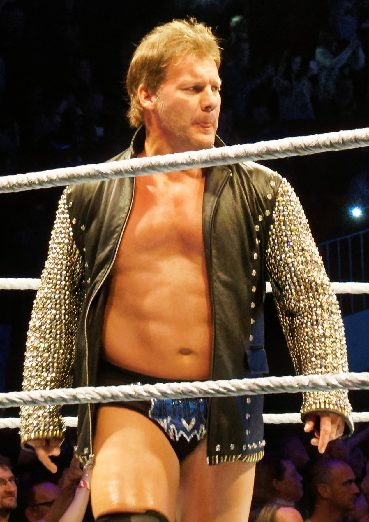 Chris Jericho in April 2016